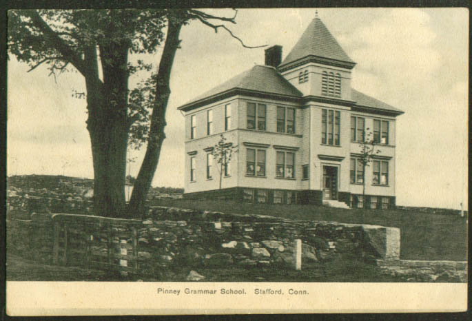 Postcard: Pinney Grammar School in Stafford, Connecticut, 1909 postmark Description: Caption: "Pinney Grammar School. Stafford, Conn." Title for item on Web page: "Pinney Grammar School at Stafford CT postcard 1909" Description from Web page: "Written, stamped & mailed. Date in title indicates full date as shown on postmark. Card may have been manufactured around that date, or much earlier. Standard-size postcard."